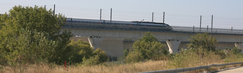 TGV on the bridge of the LGV railroad, Rhone river, Avignon (84), France